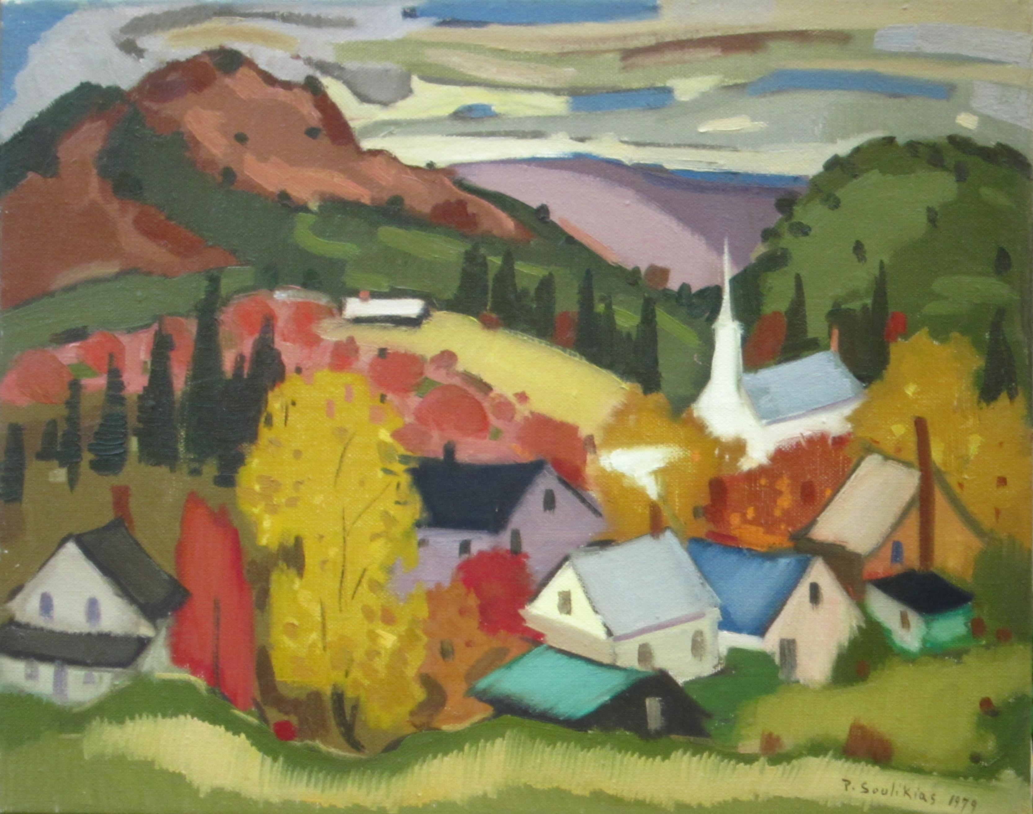 Fall in the Eastern Townships, painted by Paul Soulikias.